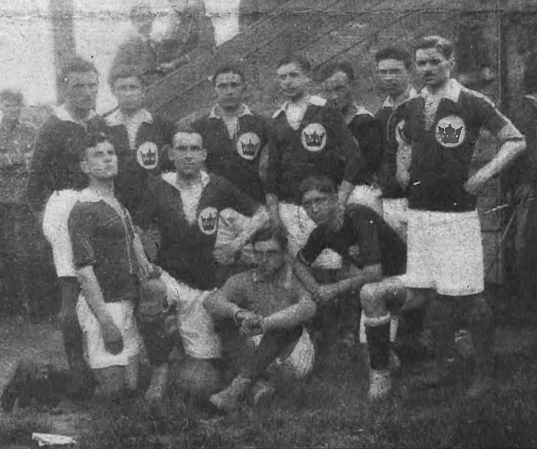 Polish associate football team Korona Warszawa in 1919.